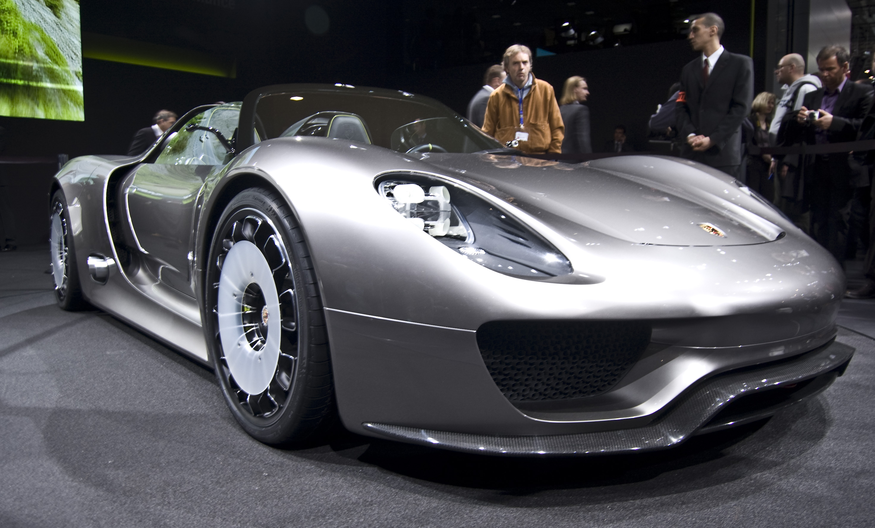 Porsche 918 Spyder plug-in hybrid at the 2010 Geneva Motorshow